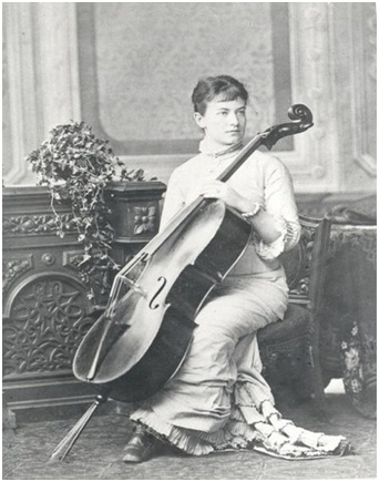 A young white woman, seated with a cello. She is wearing a long white dress with high neck and ruffles.